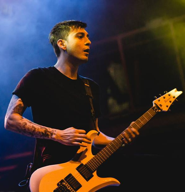 AlexTorresPerformingliveat2014